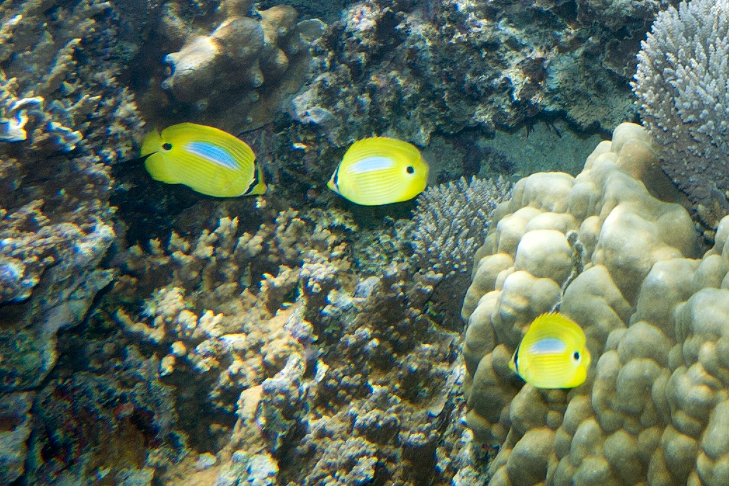 also called blue-spot butterflyfish